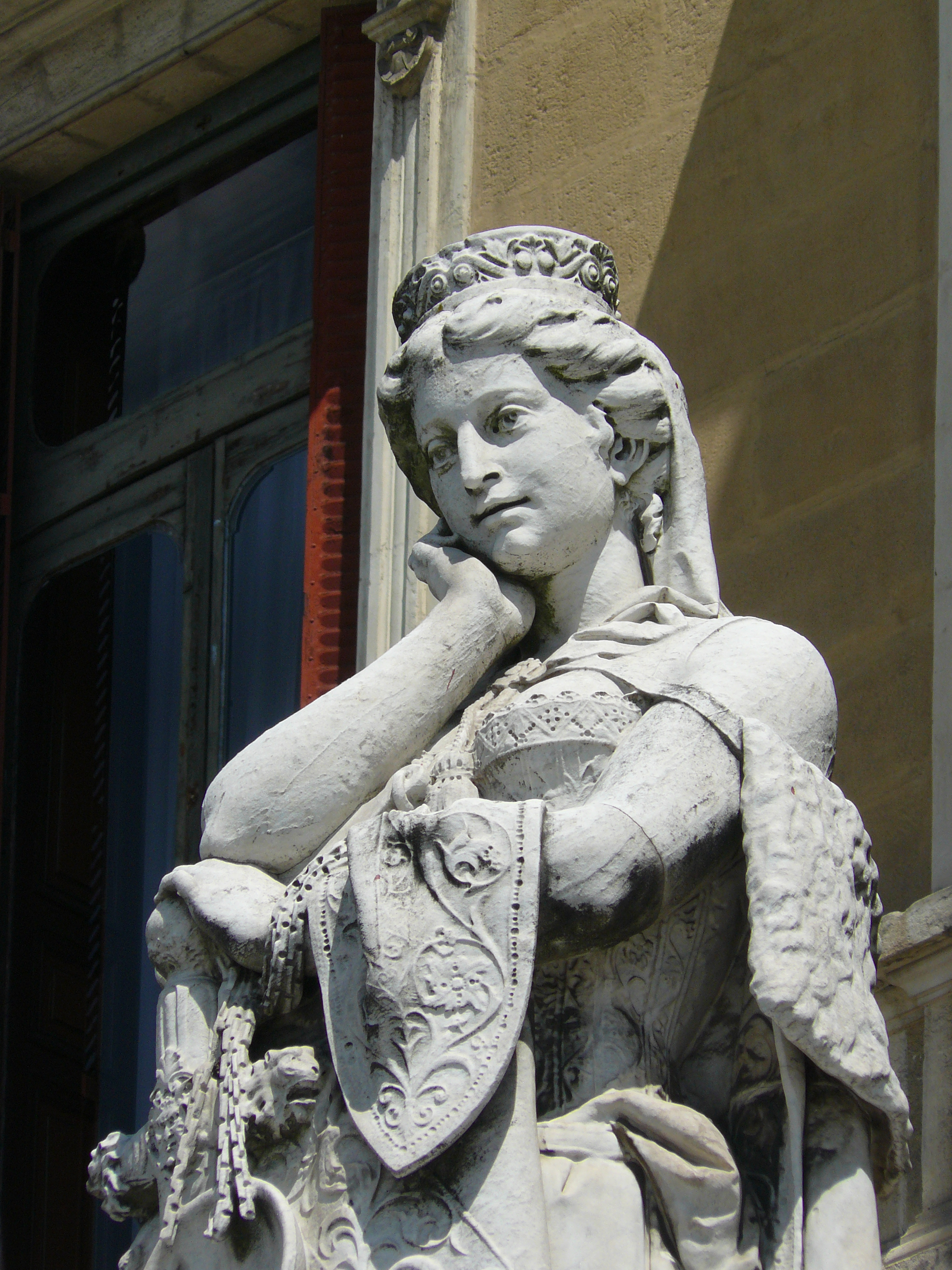 Bilbao city hall